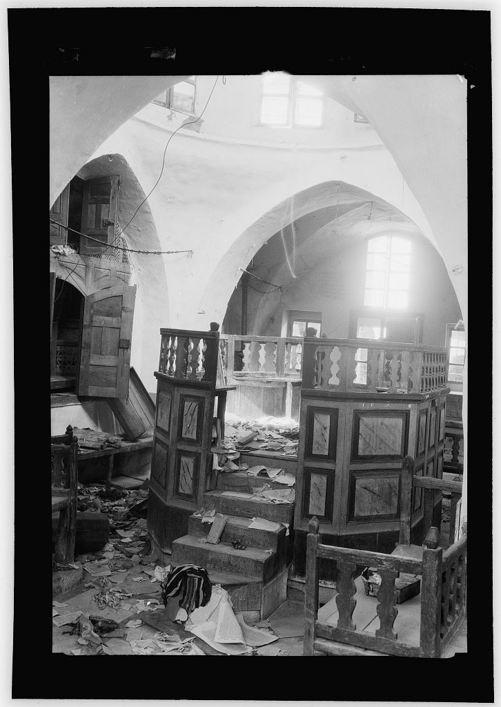 Title: Palestine events. The 1929 riots, August 23 to 31. Synagogue desecrated by Arab rioters. Hebron. Furniture broken, floor littered with torn sacred books Abstract/medium: G. Eric and Edith Matson Photograph Collection Physical description: 1 negative